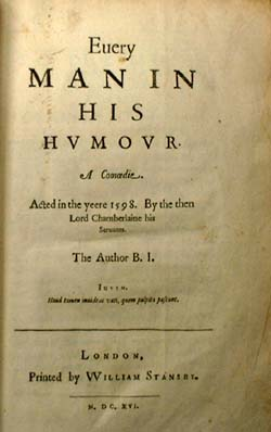 Divisional title of Ben Jonson's Every Man in his Humour, from the third issue of the folio 'Works' of 1616. Copies of this were ‘made up’ substantially later with some of the sheets printed from a later setting of the type, it is a leaf of this very much later setting, not the 1616 issue, that is the subject of the reproduction. See W.W. Greg, ‘A Bibliography of the English Printed Drama to the Restoration,’ III, p. 1070-3(¹) and “Studies in Bibliography” 30:75-95.